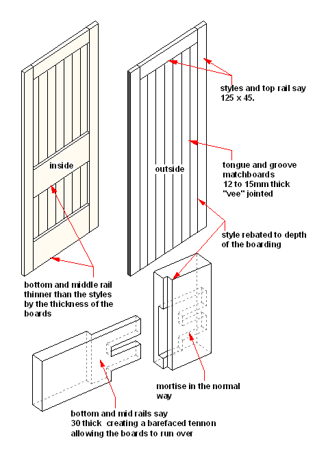 Sketch by Bill Bradley. billbeee (talk) 07:59, 26 December 2007 (UTC) Feel free to use it, just credit me as the creator. You can contact me through my website my website